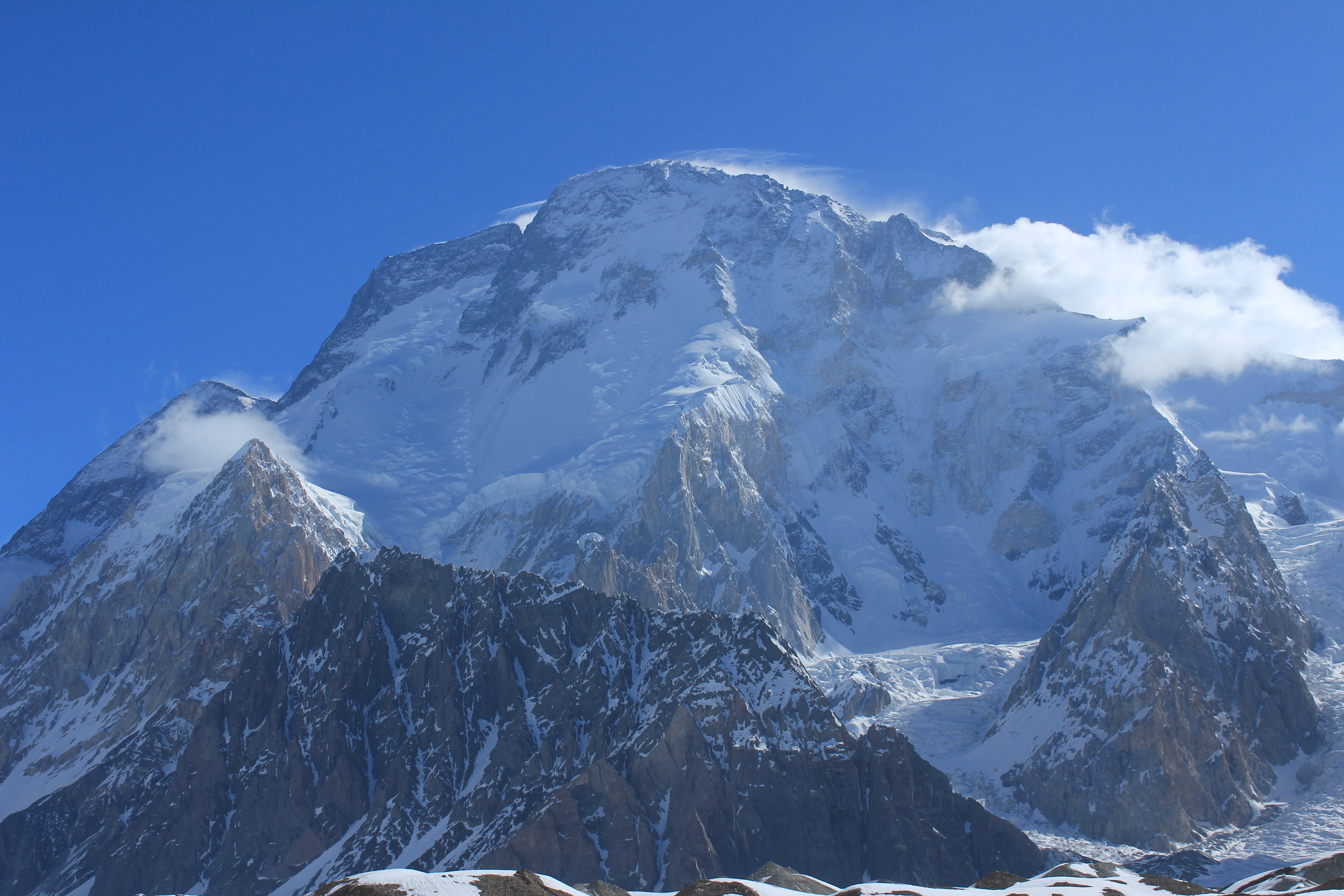 Pictures taken during trekking to Base Camp K2